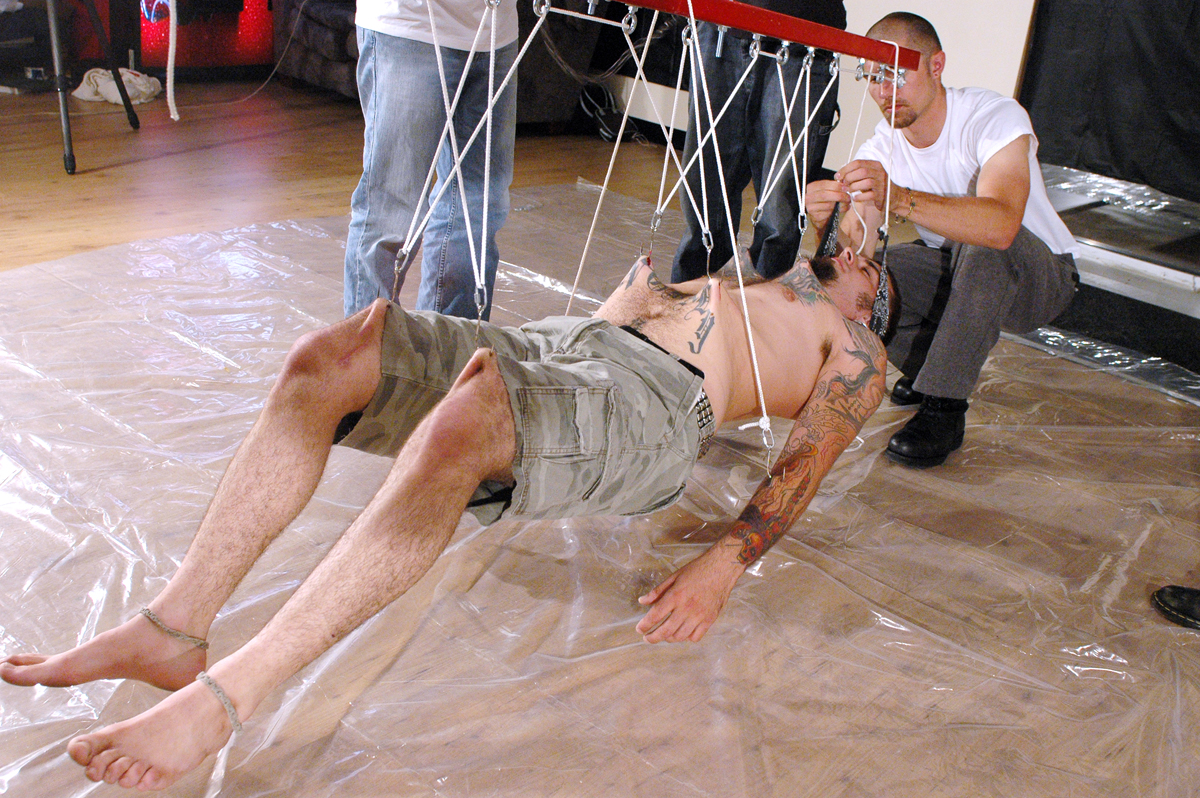 After getting off the ground, Johnson said it felt exciting, like just getting over the highest point of a roller coaster.